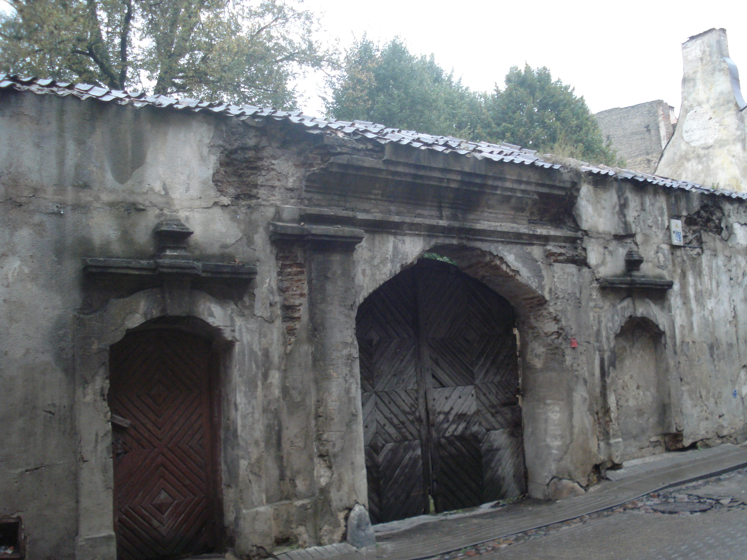 The gate of the Sawicz hospital in Bokshto street (Bokšto gatvė) in Vilnius